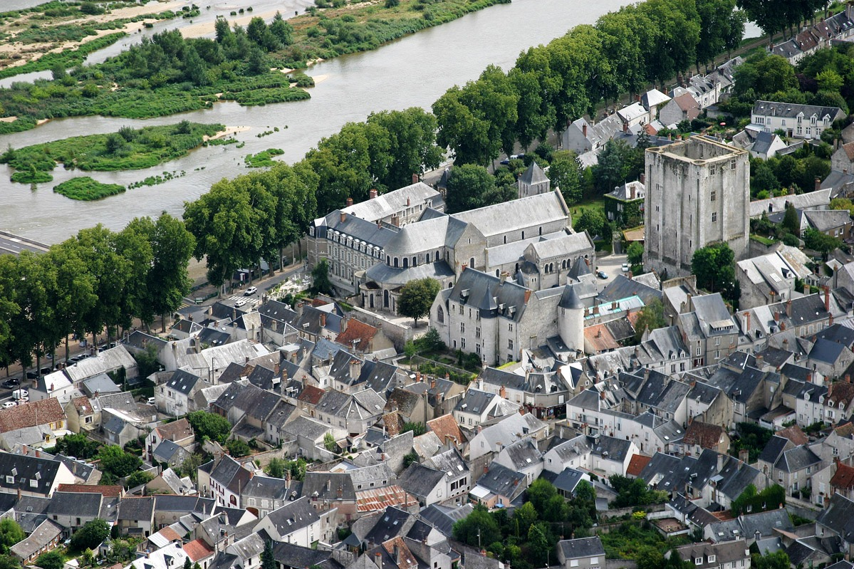 Beaugency, France